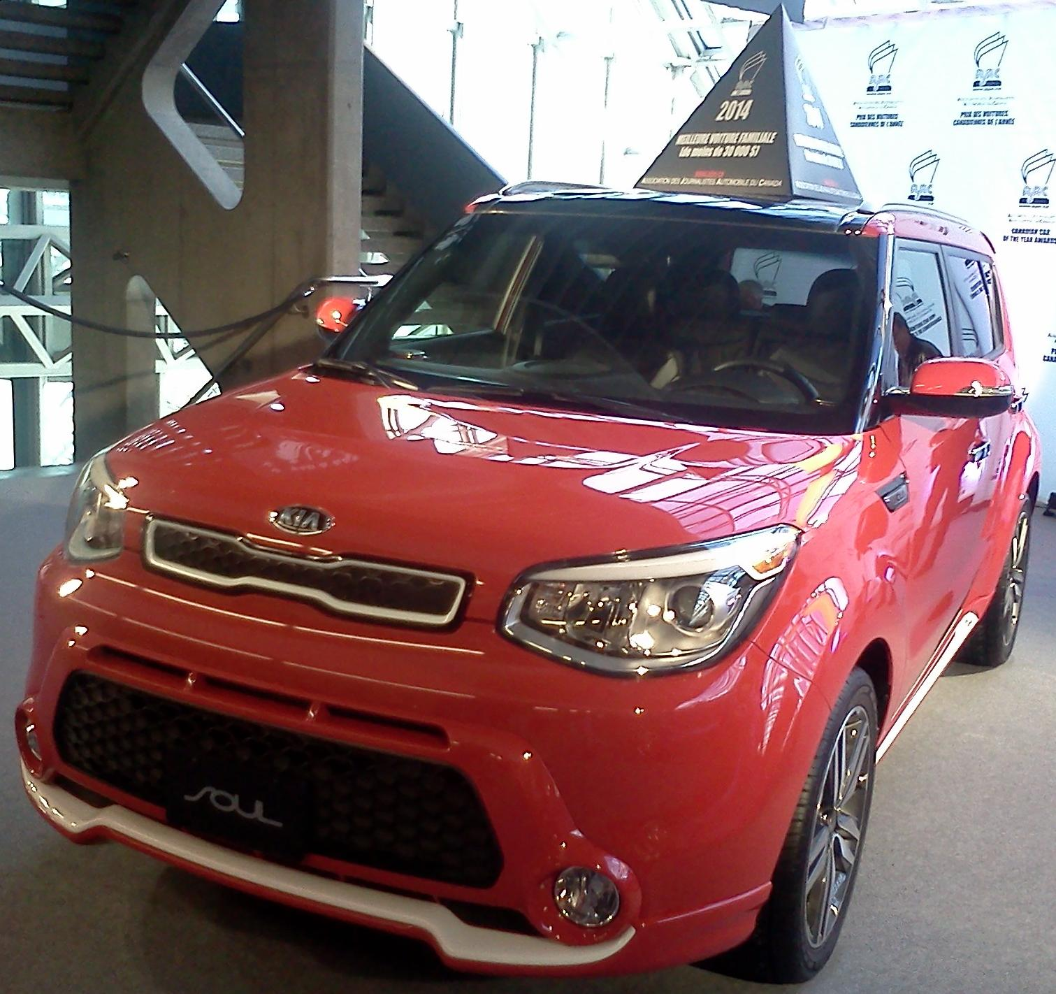 2014 Kia Soul photographed in Montreal, Quebec, Canada at the 2014 Montreal International Auto Show.